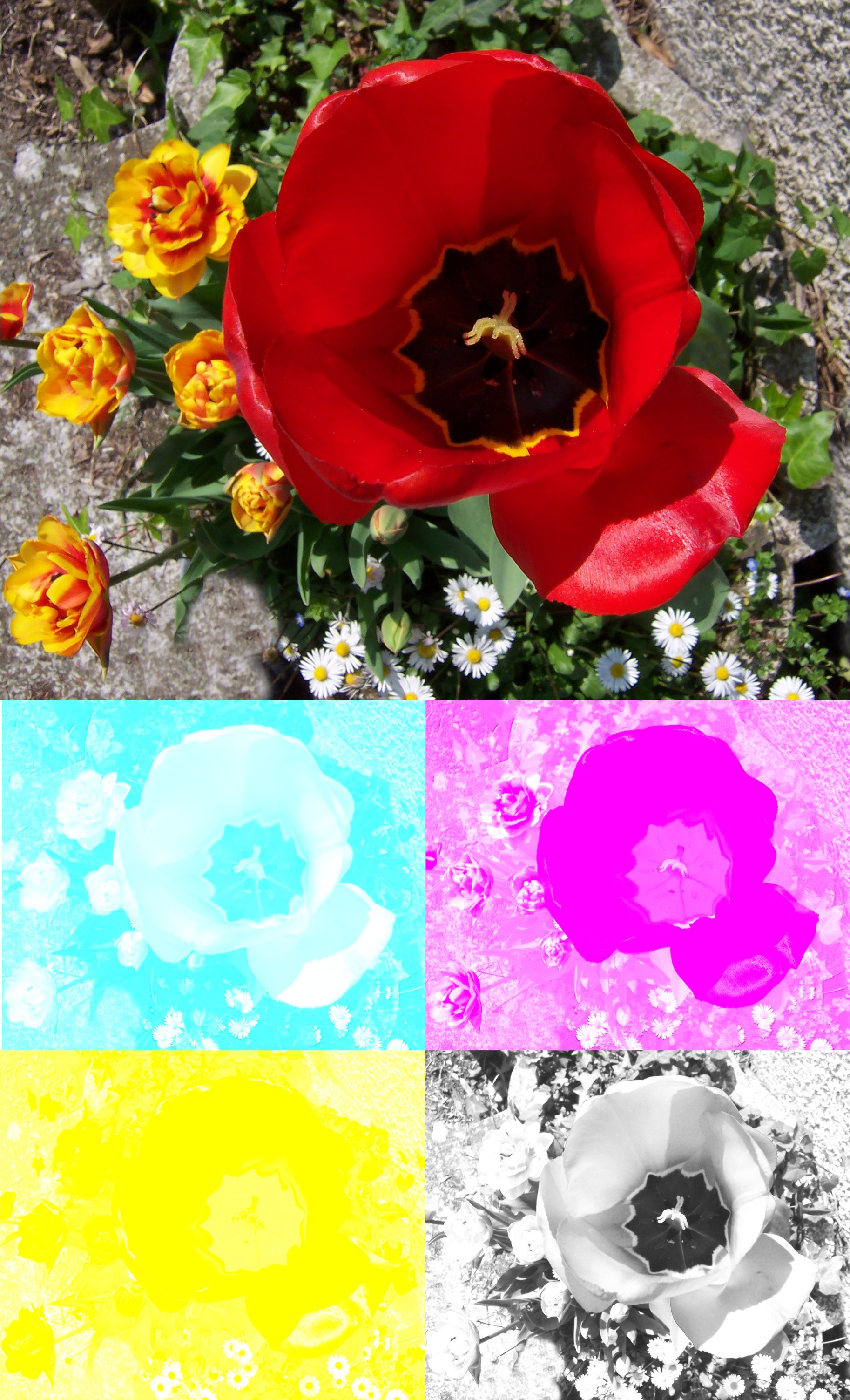 Subtractive color synthesis - CMYK